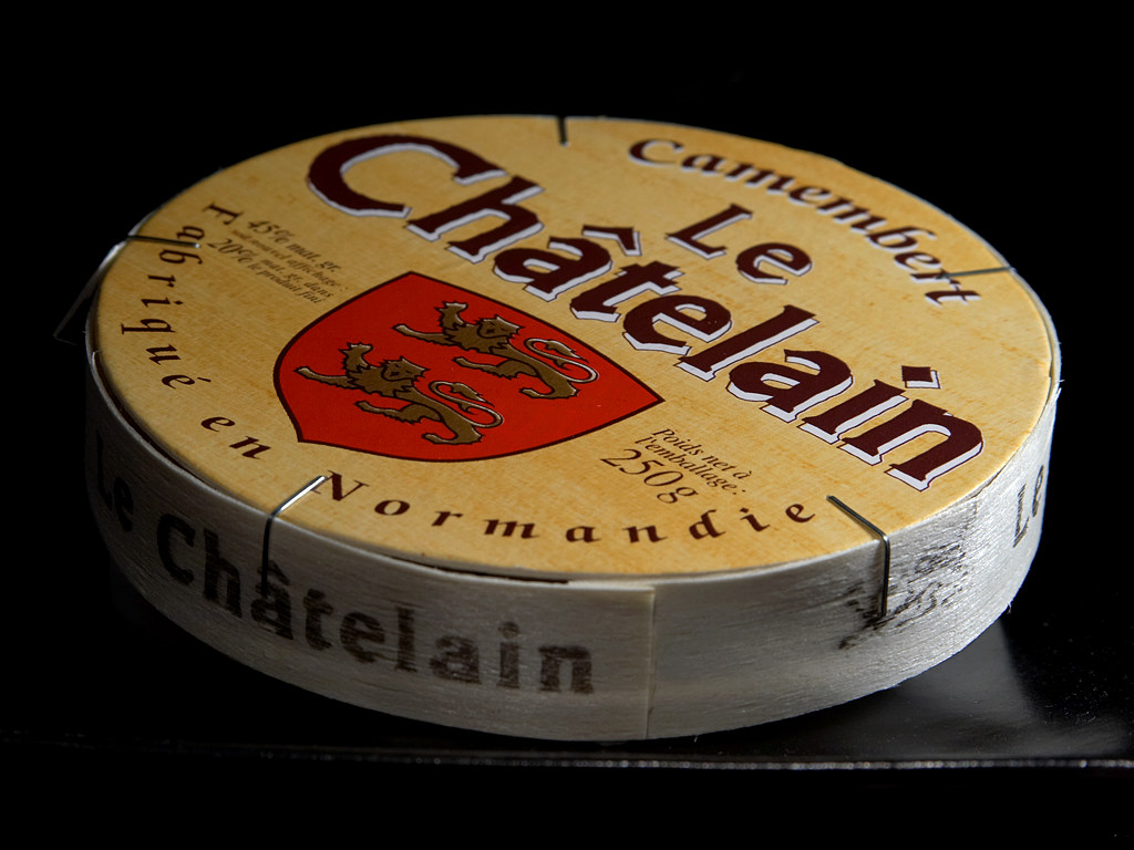 Camembert cheese box